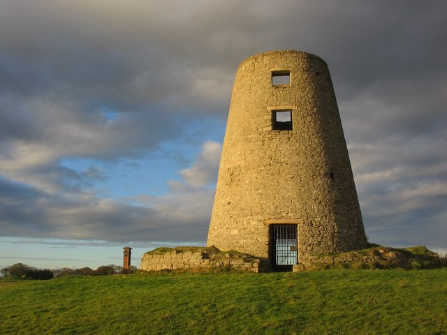 The windmill at Cleadon Hills, Tyne & Wear